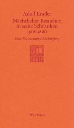 Book cover of Adolf Endler "Nächtlicher Besucher, in seine Schranken gewiesen" 2008